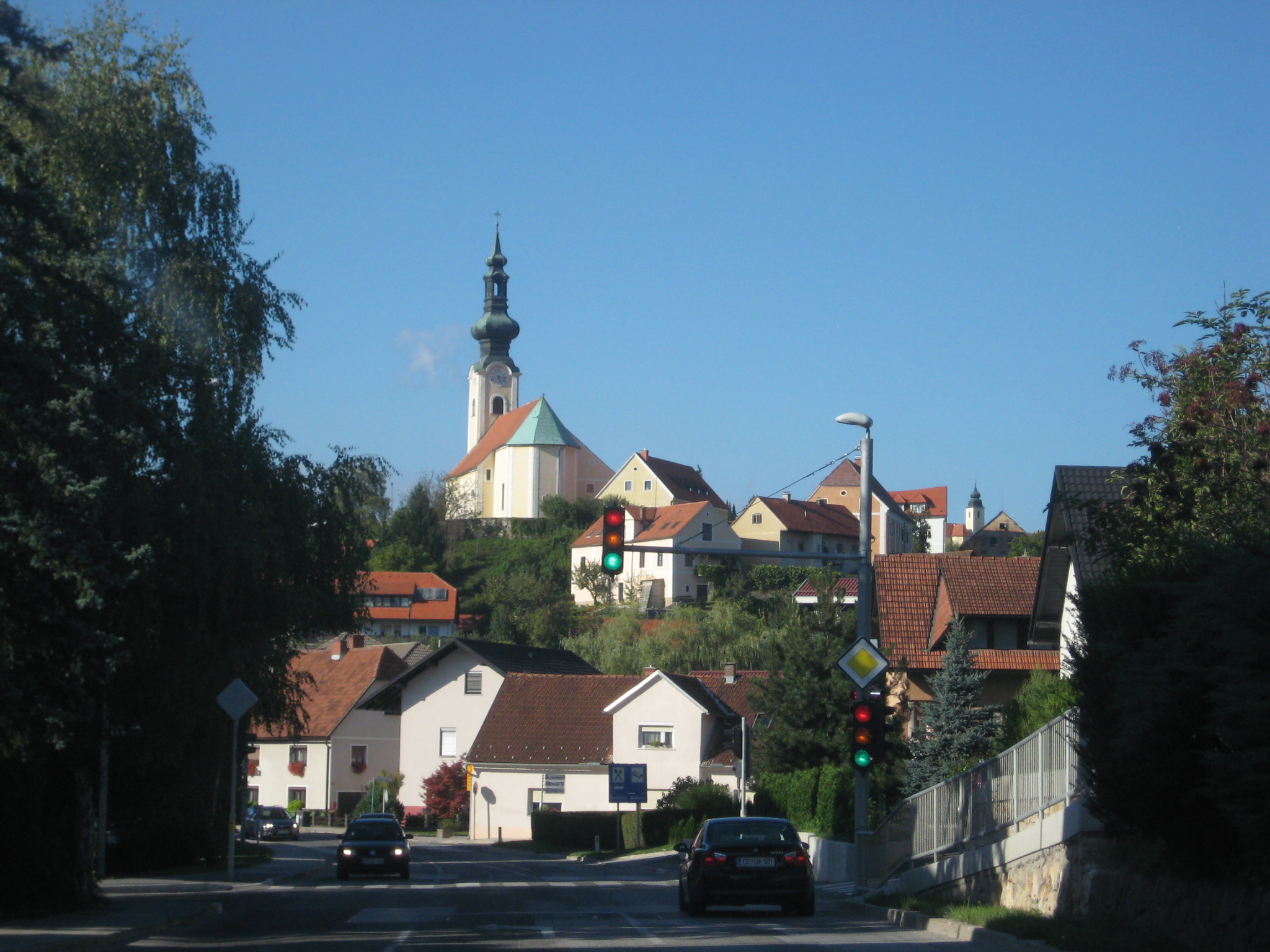 Šentjur pri Celju, town in Slovenia